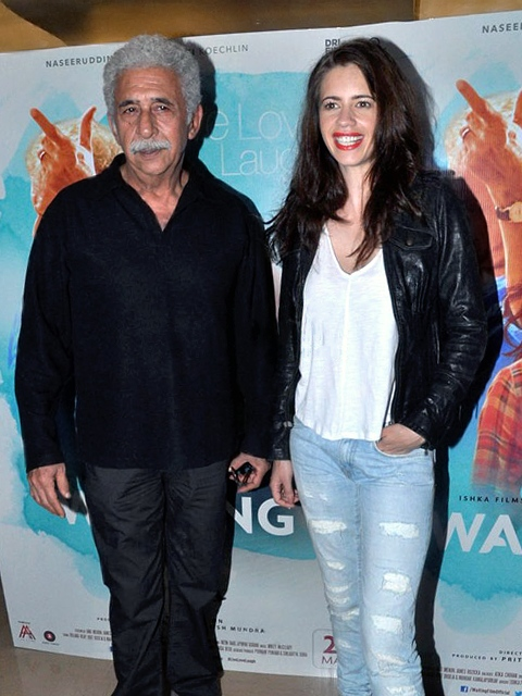 Kalki Koechlin and Naseeruddin Shah at the premiere of 'Waiting'